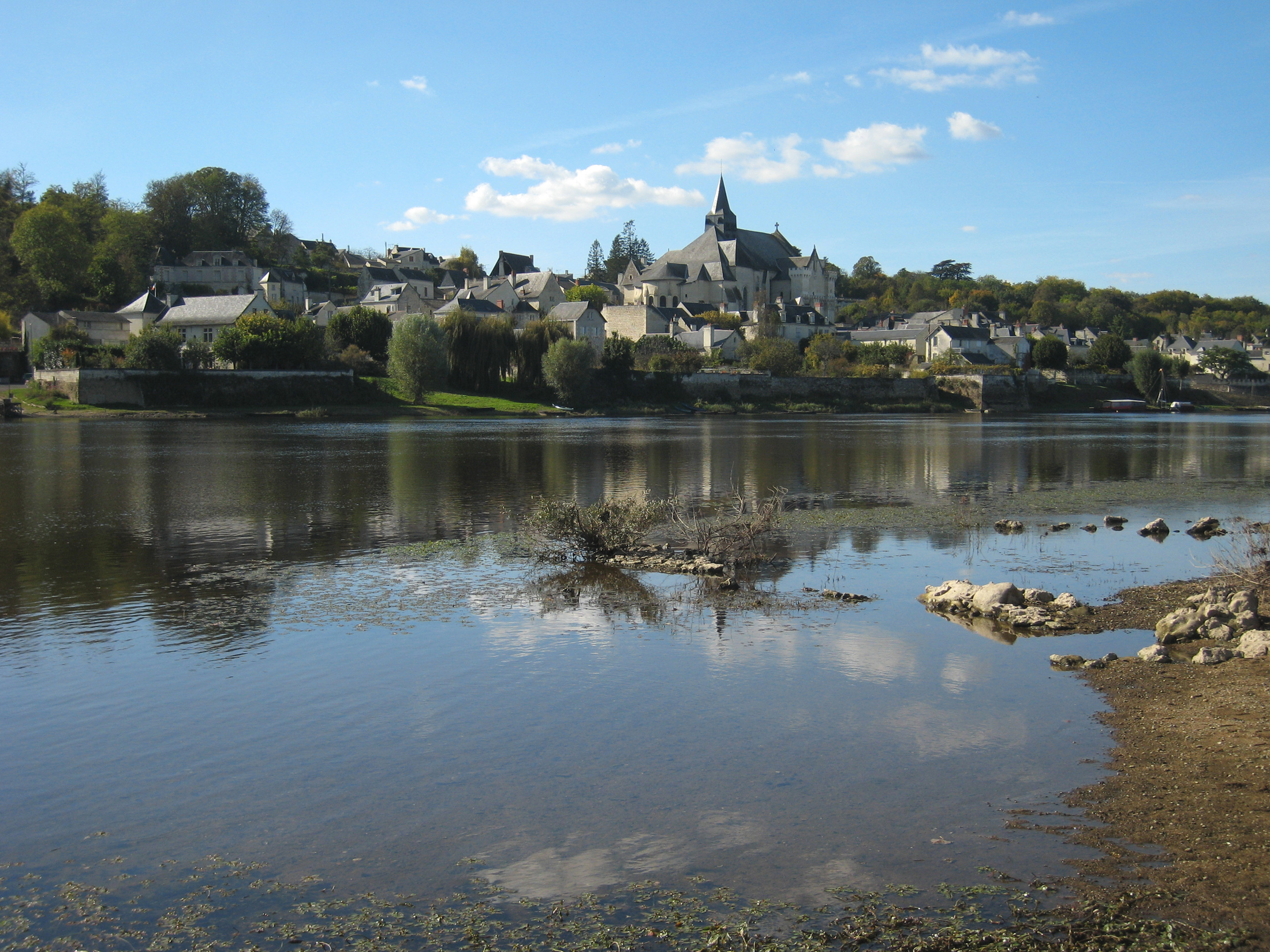 Village of Candes-Saint-Martin, situated on the Loire river near Tours in the département of Indre-et-Loire in the Region Centre/France - view across the river